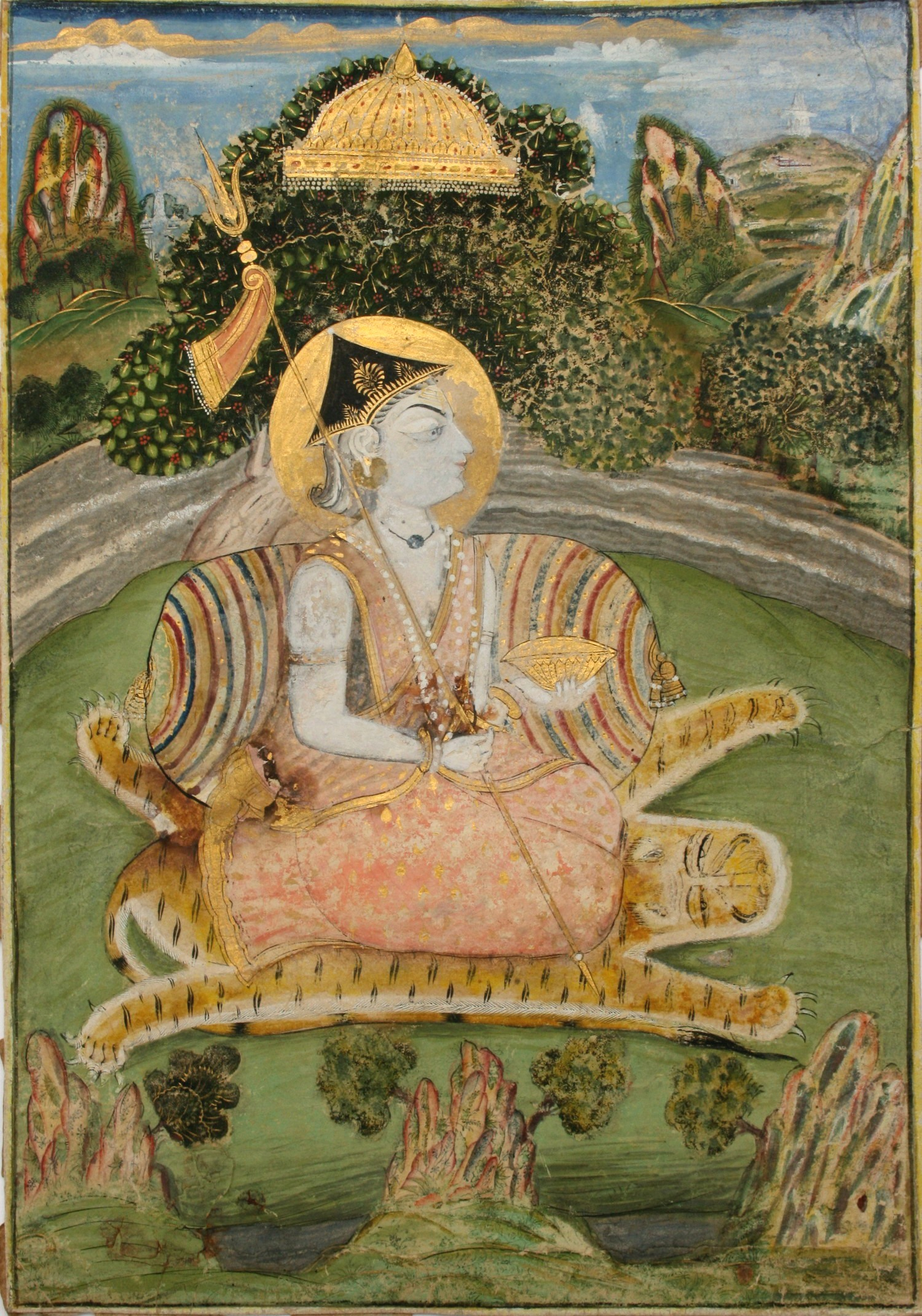 Jallandharnath. Jodhpur (Marwar), ca. 1820, Private coll. London